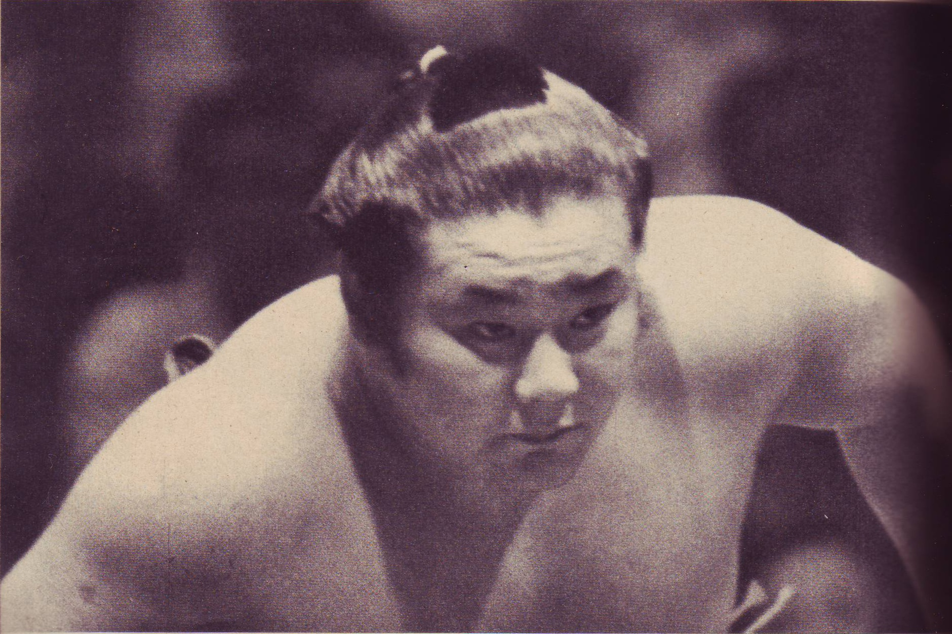 Atagoyama Takeshi (Sumo wrestler Maegashira. taken in 1959, or before that).